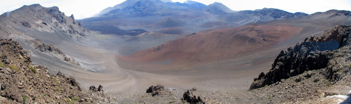 Haleakala Crater - panoramic picture Author: Patrick Huebgen Date: April 2005 Camera: Canon Powershot S1